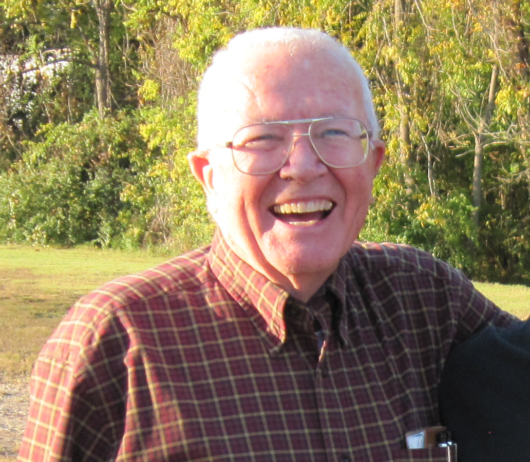 James Grea (aka Solomon J. Inkwell) and Dr. Bill Bass at the 2011 FrightWorks Author Event (cropped)